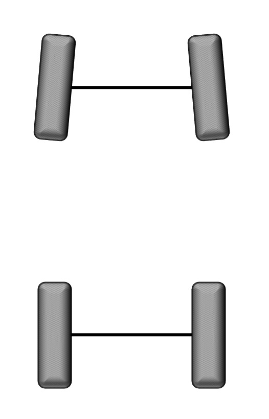 Toe (automotive)